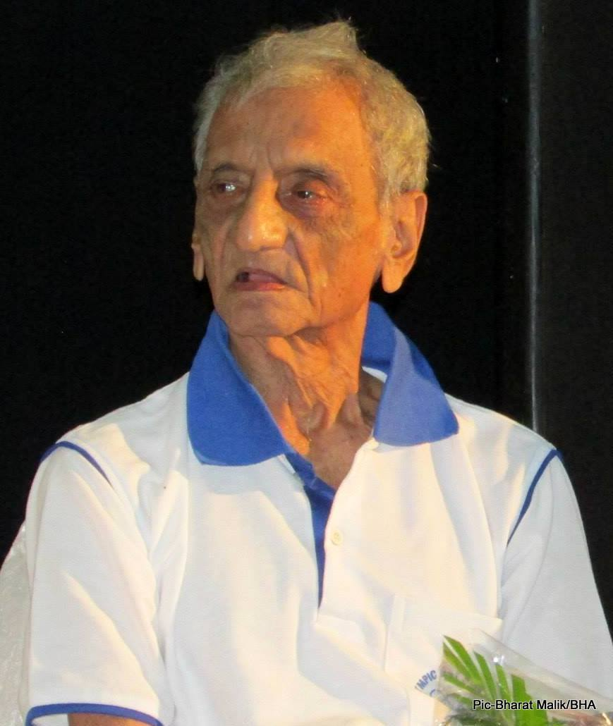 Picture of Double Gold medal winner Olympian